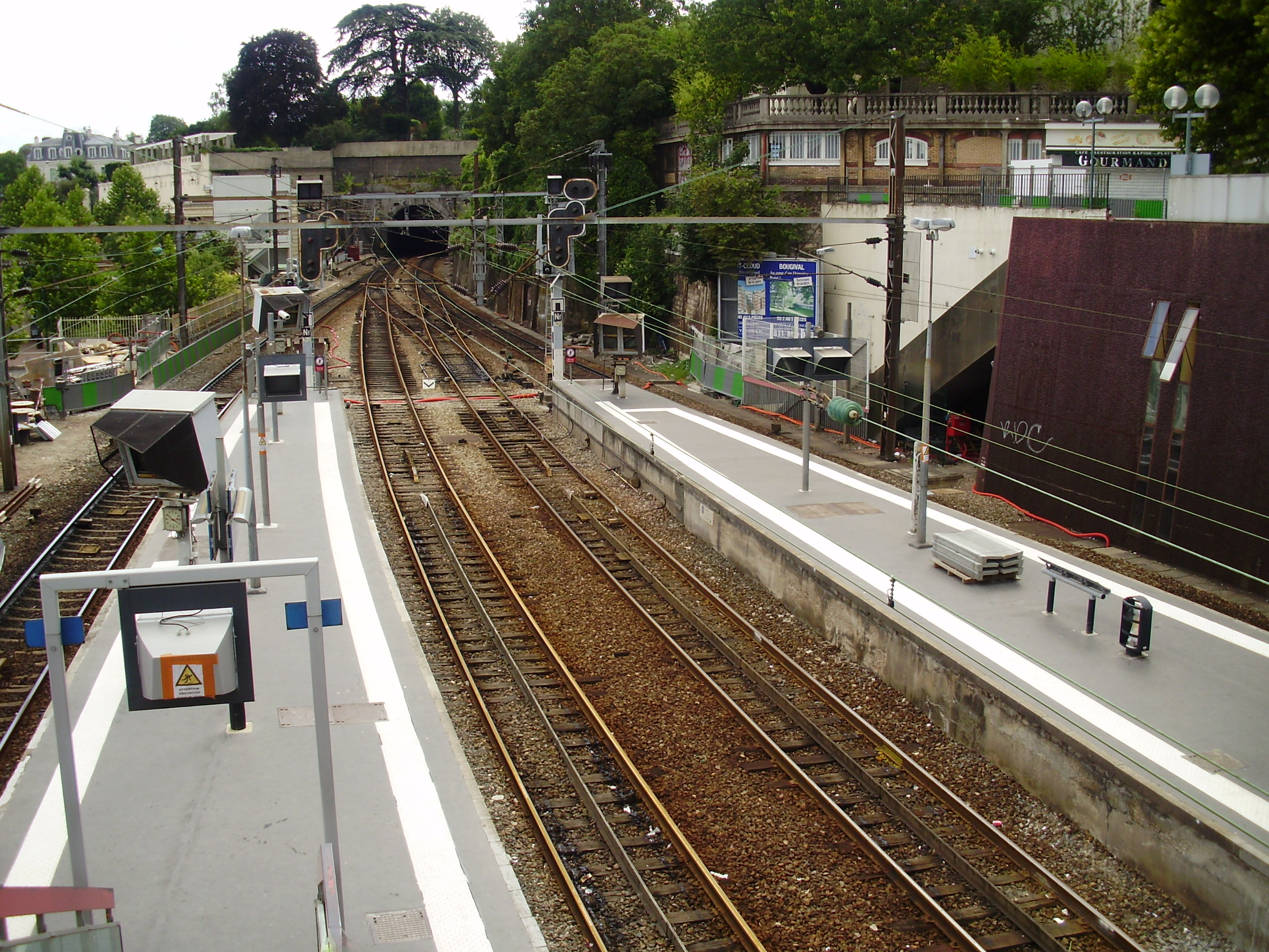 Saint-Cloud station, Hauts-de-Seine, France (view of tracks towards the Montretout tunnel in the south of the station)